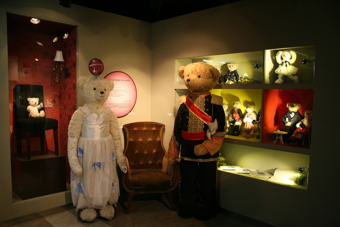 The Goong teddy bears display featured in South Korean drama Goong at the Teddy Bear Museum in N Seoul Tower